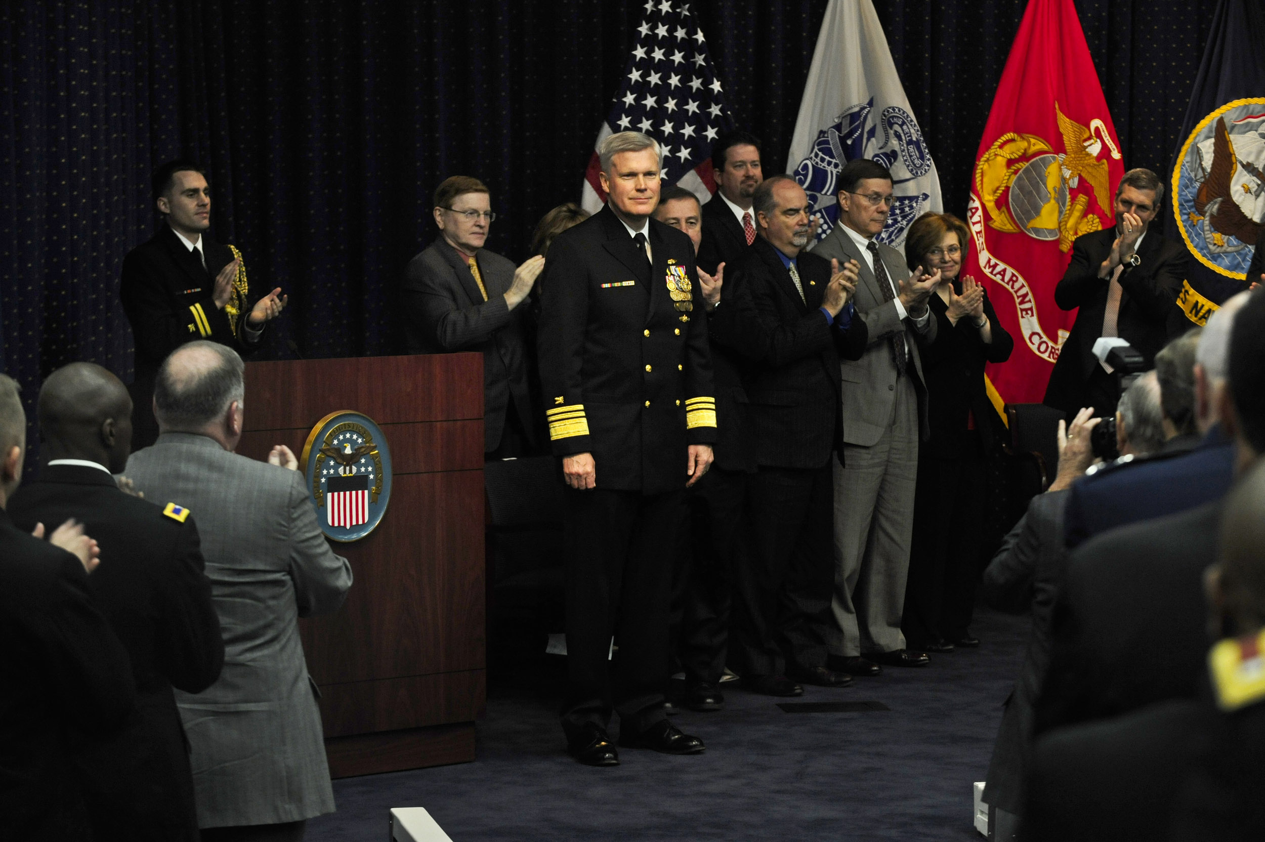 Outgoing Defense Logistics Director Navy Vice Adm. Alan S. Thompson receives a standing ovation during the agency change-of-responsibility and retirement ceremony on Fort Belvoir, Va., Nov. 18, 2011.